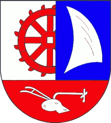 Coat of arms of the municipality Langballig in Schleswig-Holstein, Germany.